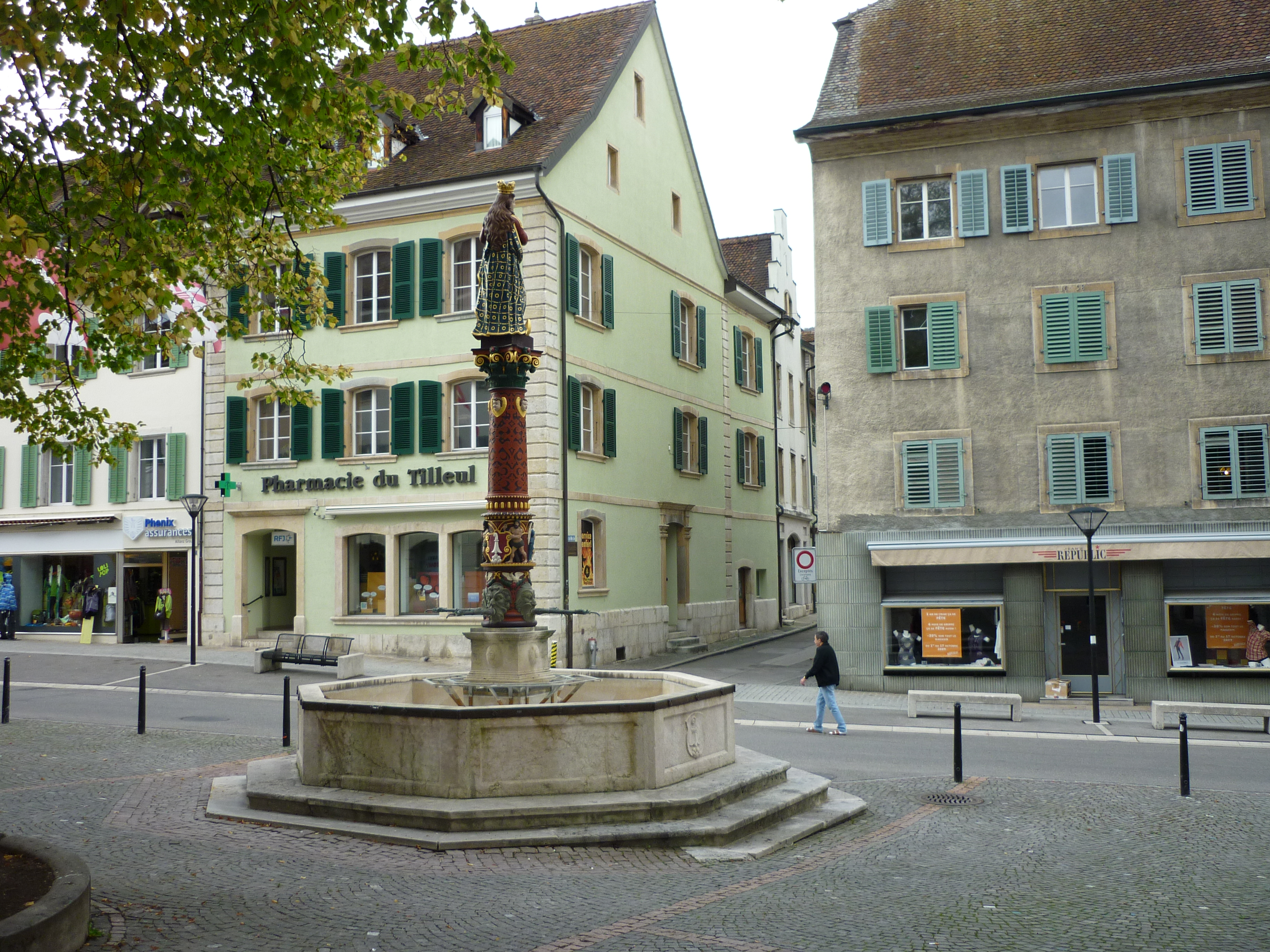 delemont centre